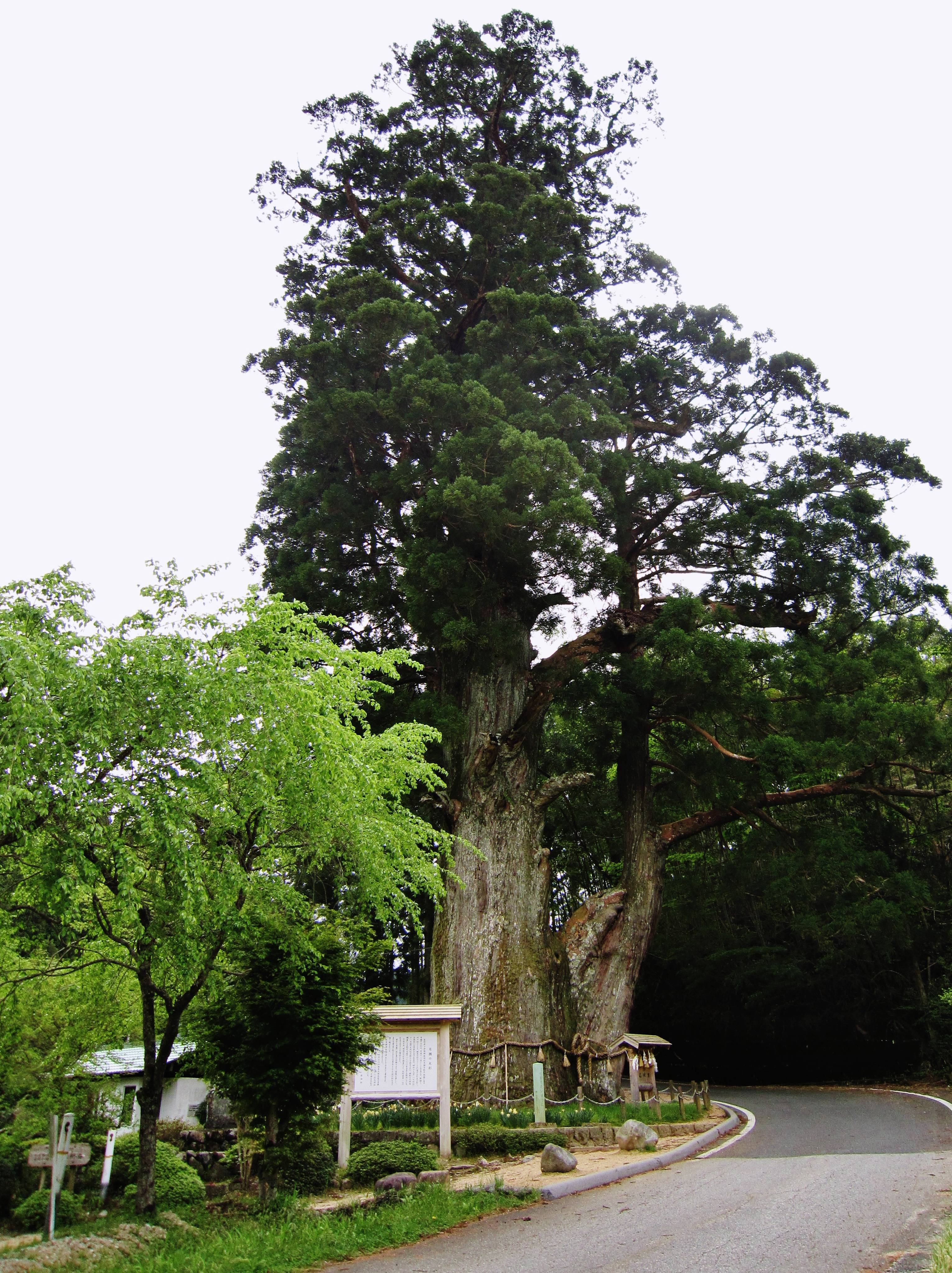 Tsukize no Ōsugi.